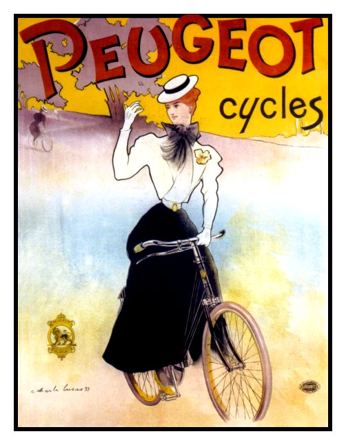 Advertising poster for Cycles Peugeot by E. Charle Lucas